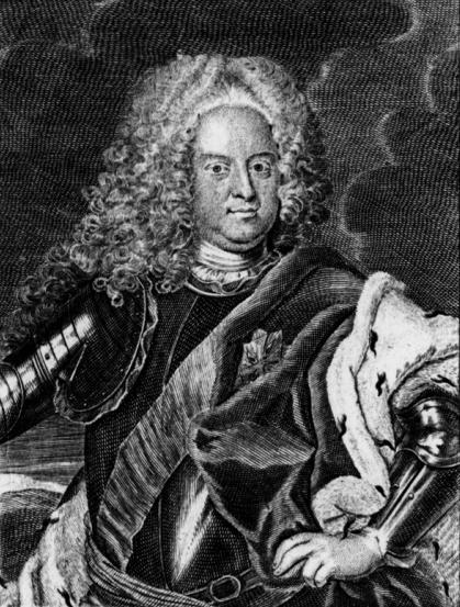 Johann Adolf II, Duke of Saxe-Weissenfels (1685-1746)